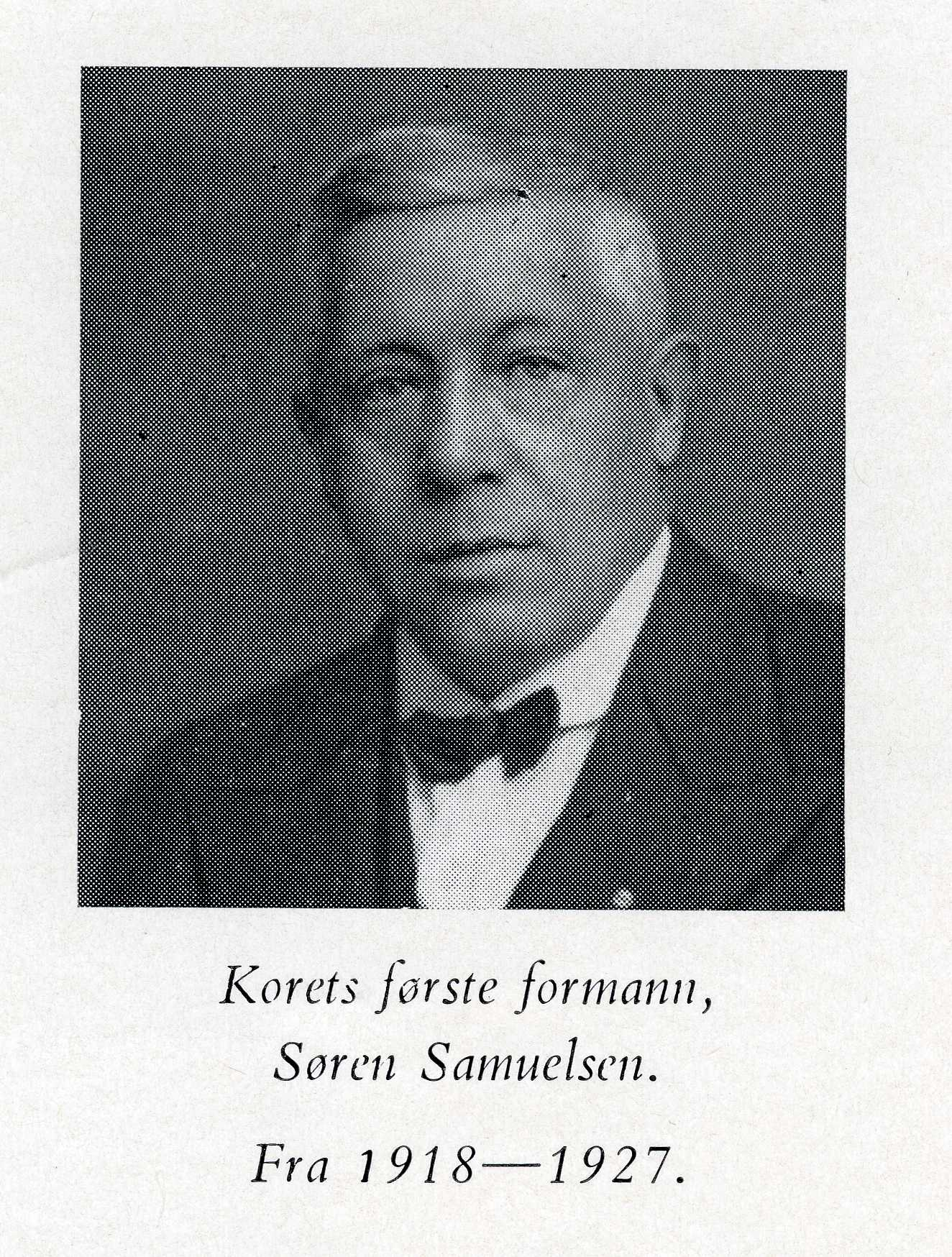 Søren Samuelsen, first director of Drøbak Men Choir